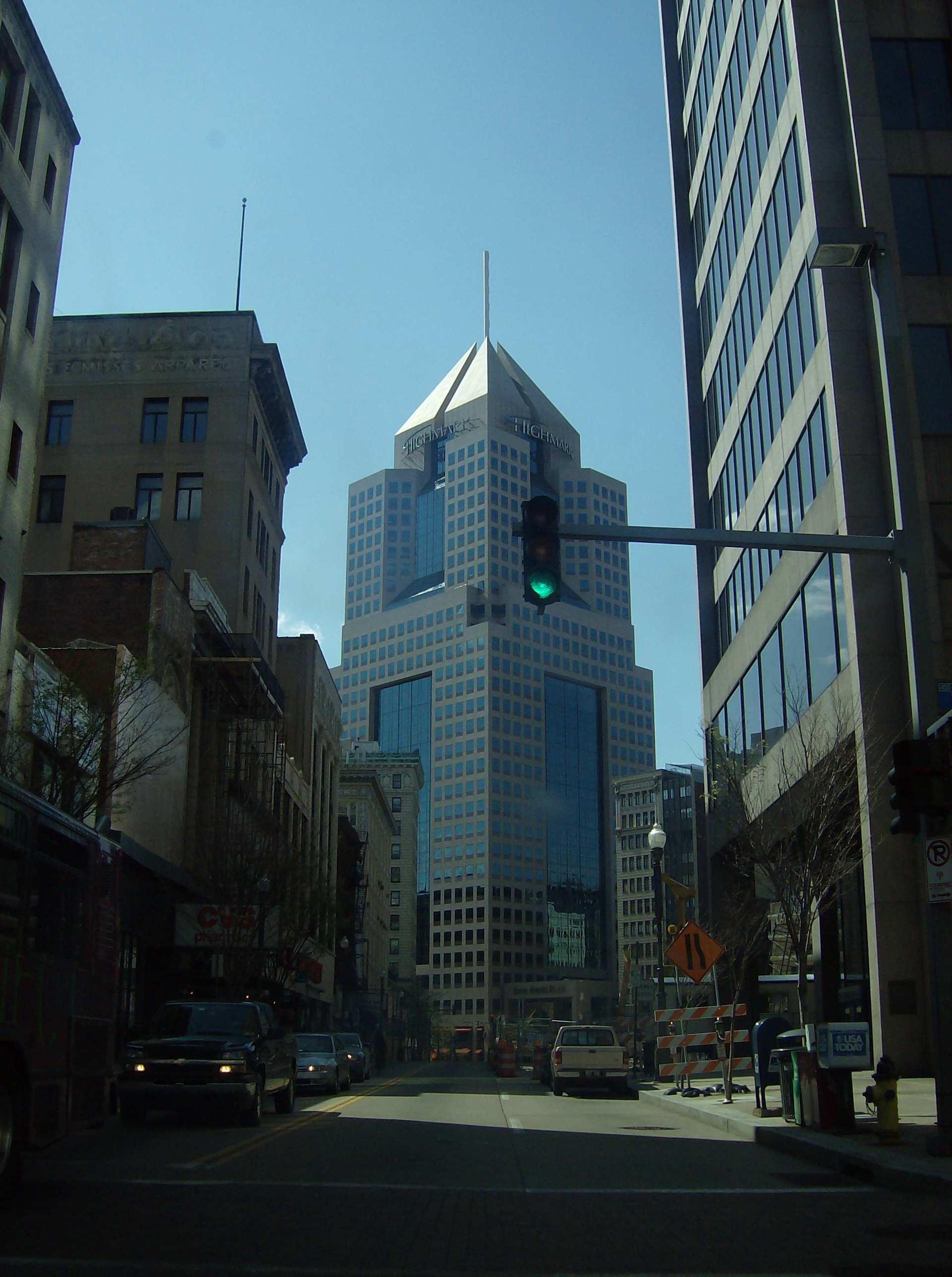 Headquarters of the insurance company Highmark in Pittsburgh, Pennsylvania, United States. Address 120 Fifth Ave., Downtown.